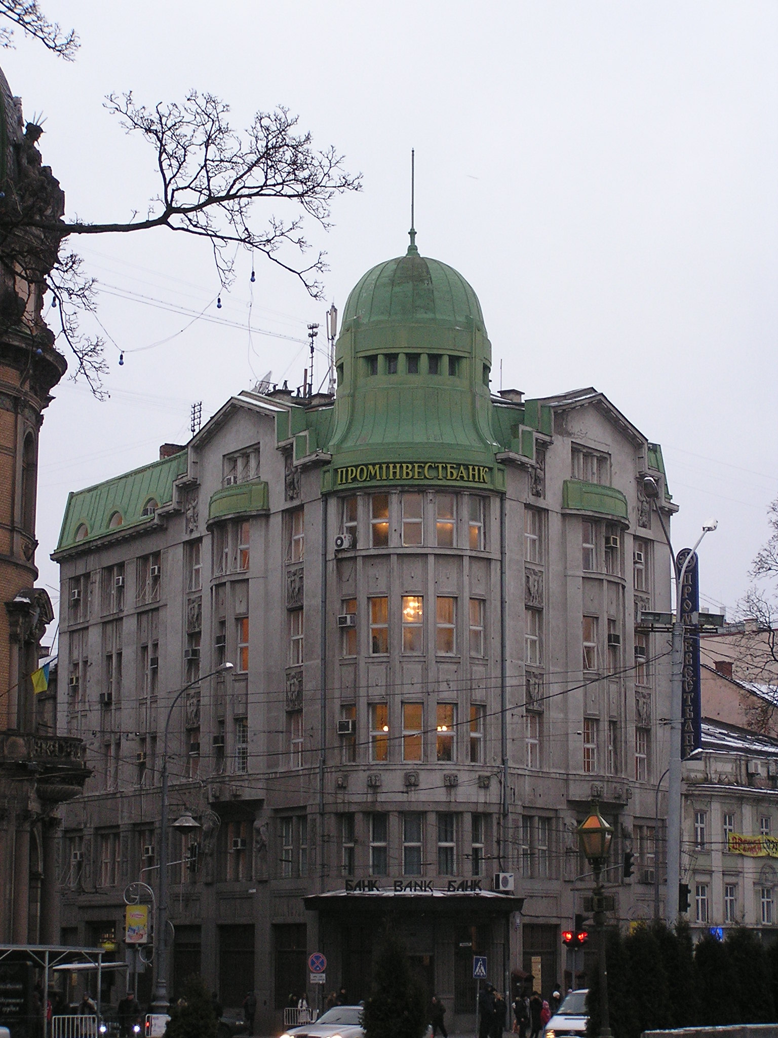 Lviv